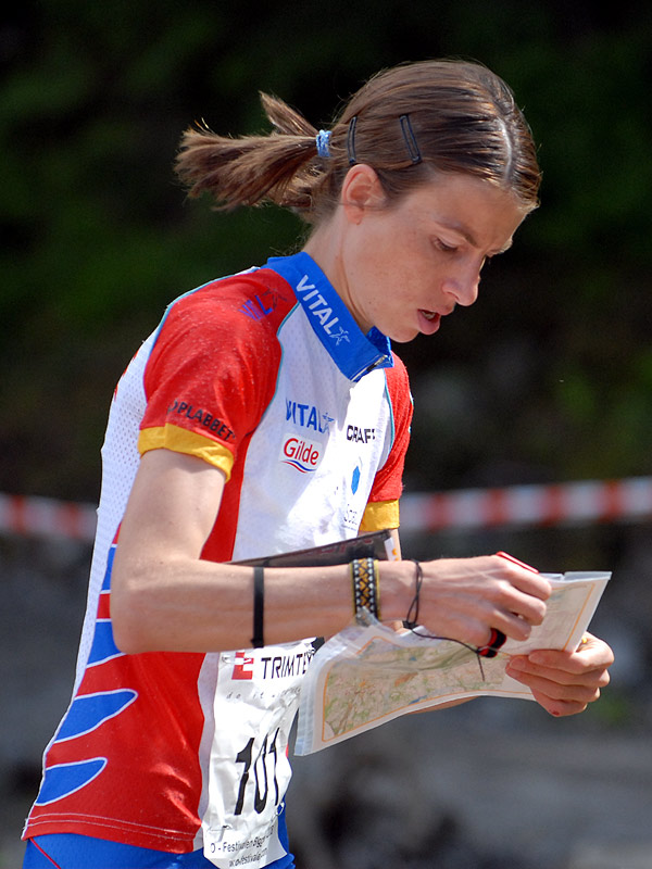 Anne Margrethe Hausken at the World Cup event at Siggerud (Oslo, Norway) 2008.